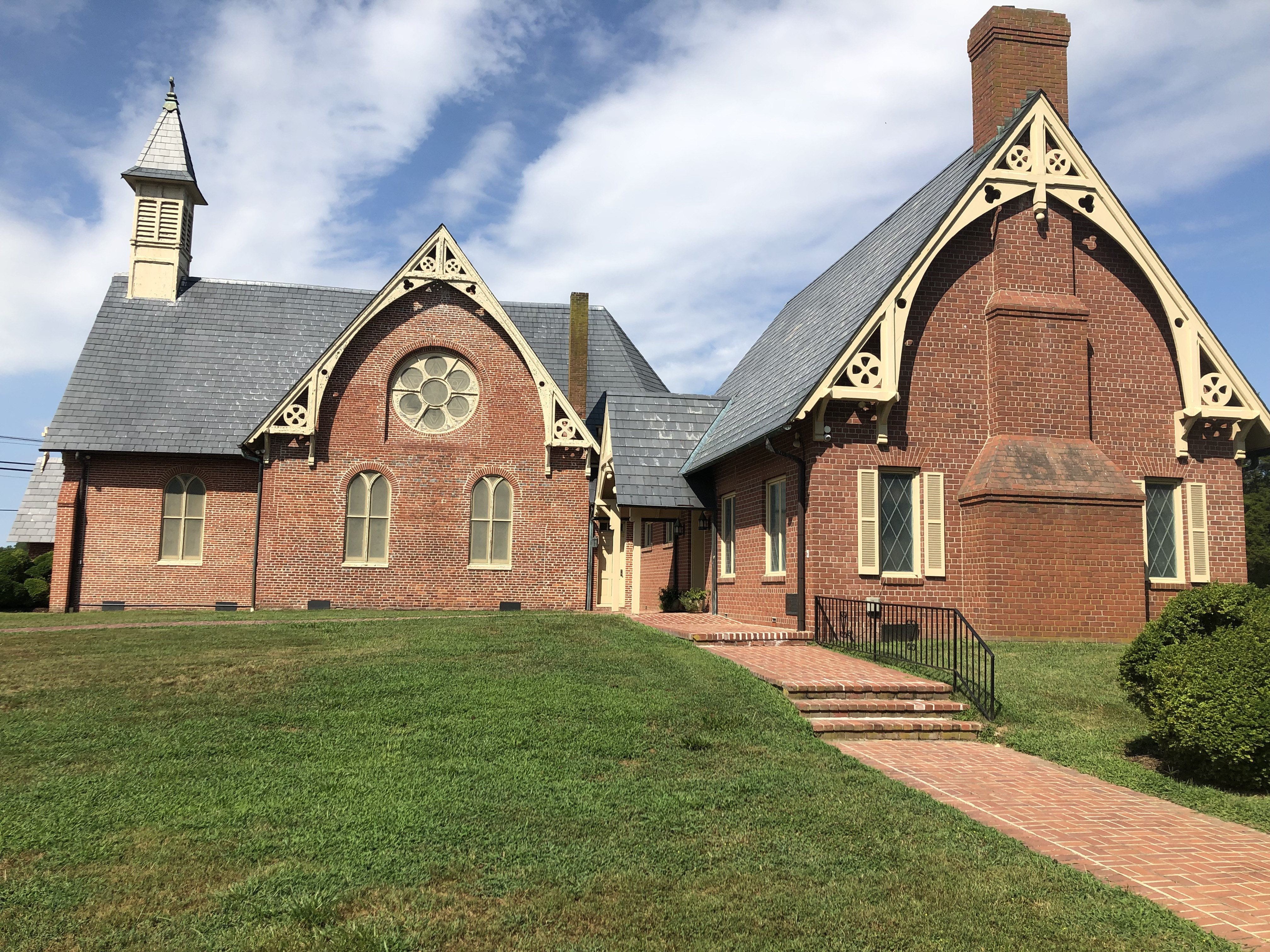 Side view of historic St. Peter's Church and sacristy near Queenstown, Maryland